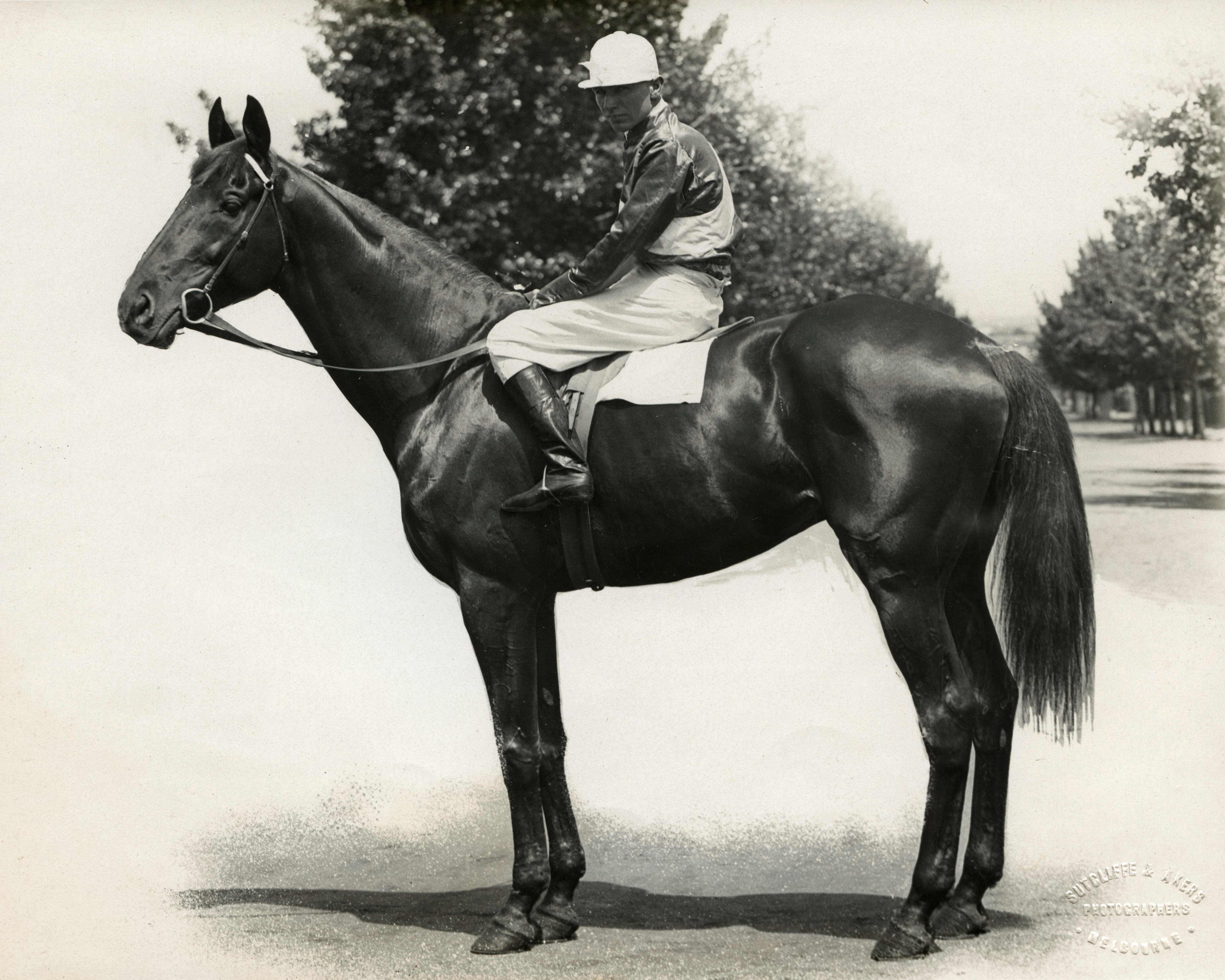 Uncle Sam 1914 VATC Caulfield Cup scanned from original photo